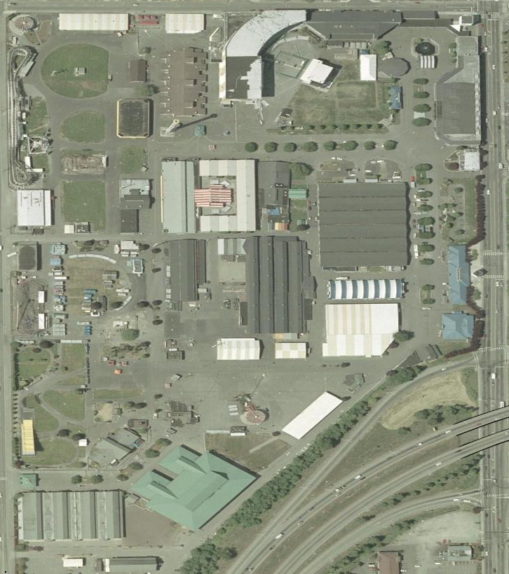 Aerial photo of the Puyallup Fairgrounds, Puyallup, Washington